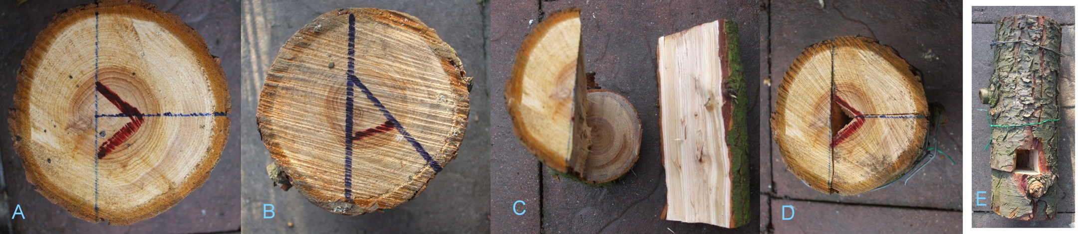 Treefire, without drill, use saw and cutter